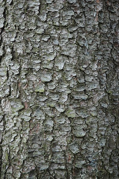 Bark of Spruce (Picea abies), old tree